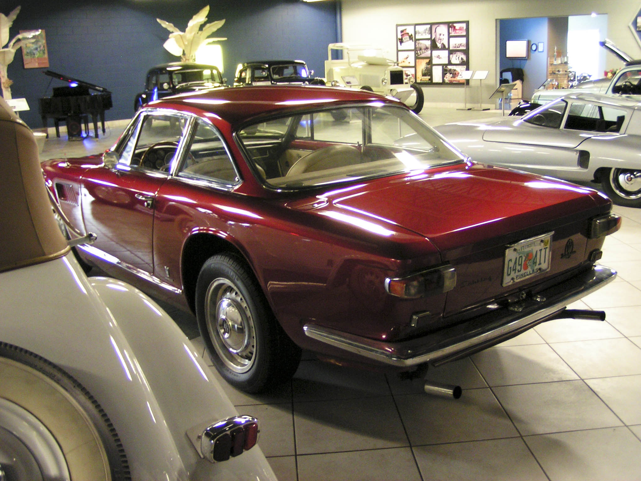 1967 Maserati Sebring Series II at the Tampa Bay Auto Museum